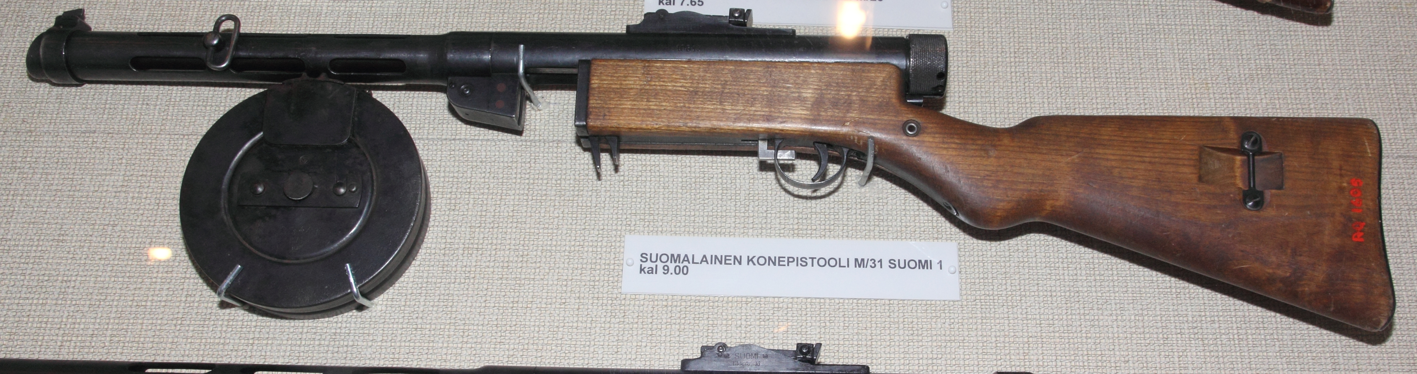 Suomi M/31 submachine gun in Imatra Border Museum.